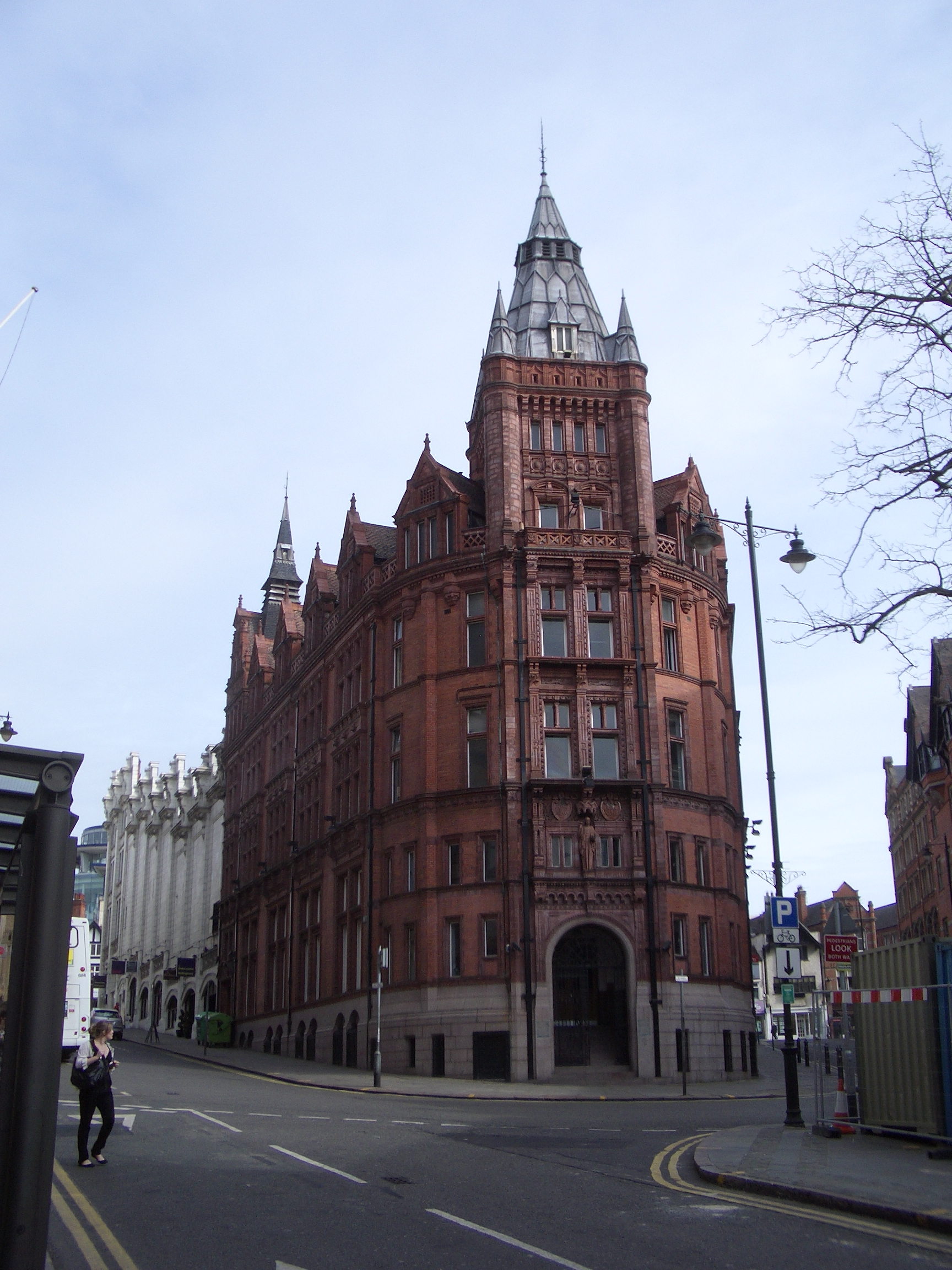 At 11 King Street, Nottingham. By Alfred Waterhouse